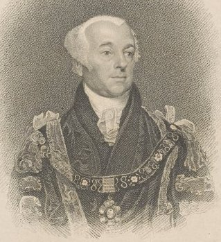 George Scholey, Lord Mayor of London (died 1831)